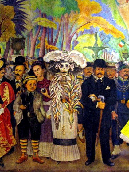 Rivera himself, as a pug-faced child, and Frida Kahlo stand beside the skeleton; mural in Mexico City